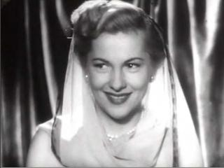 Cropped screenshot of Joan Fontaine from the trailer for the film Born to Be Bad